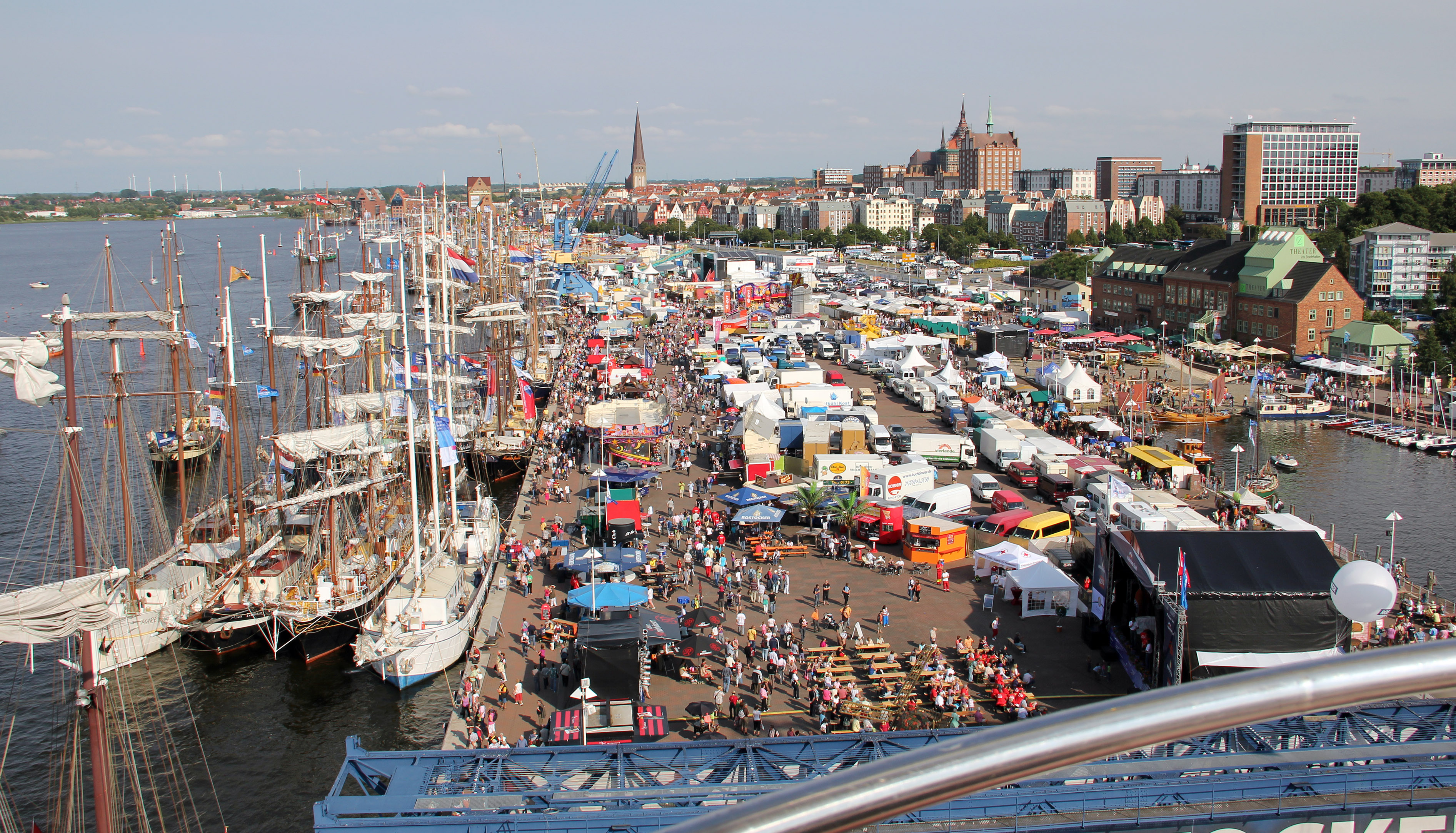 Baltic Sail, Hanse Sail Rostock 2010 Harbor